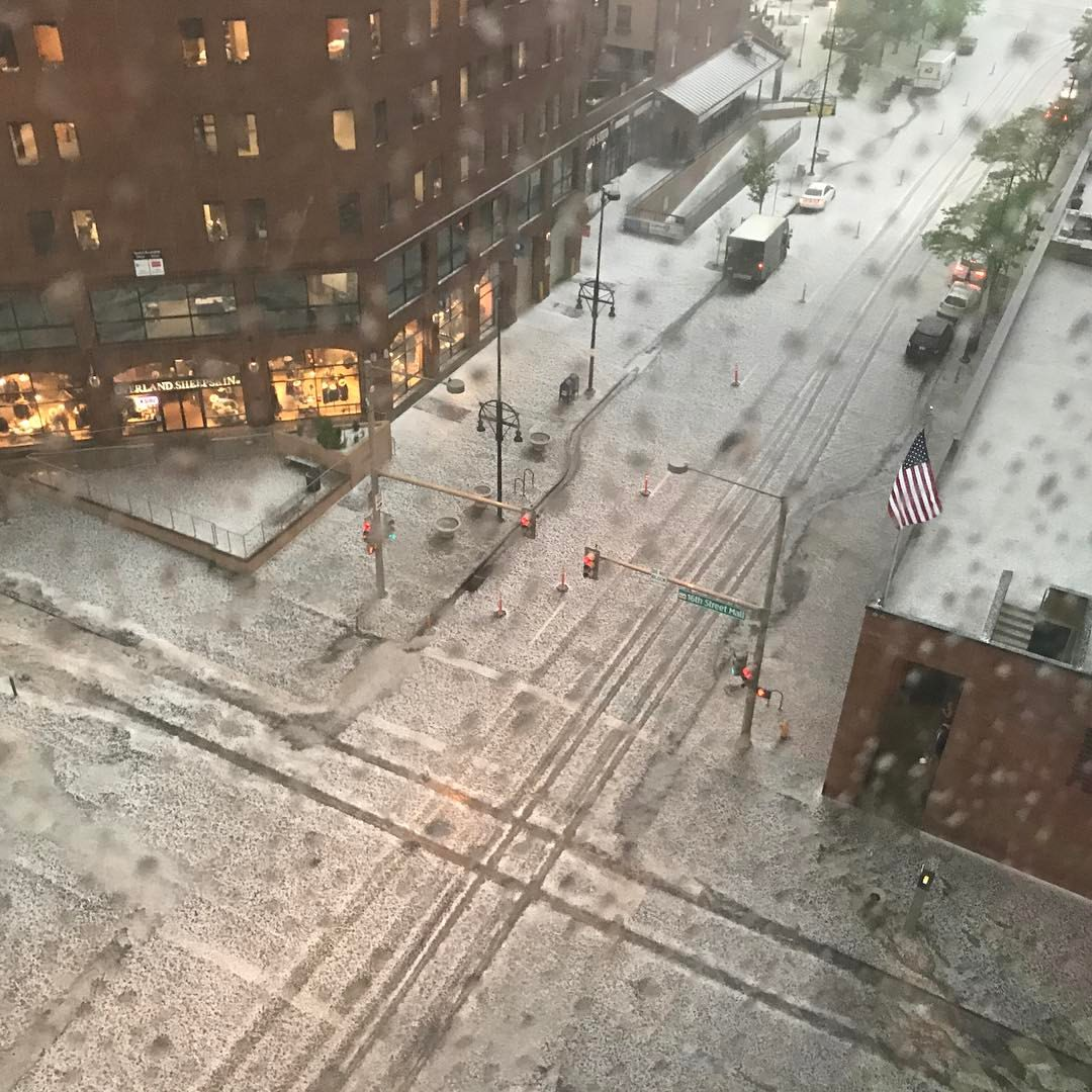 Streets in downtown Denver, Colorado under hail storm.